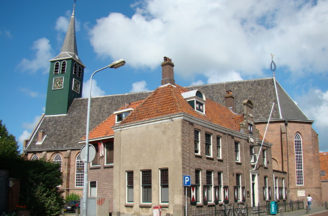 Church of Krommenie